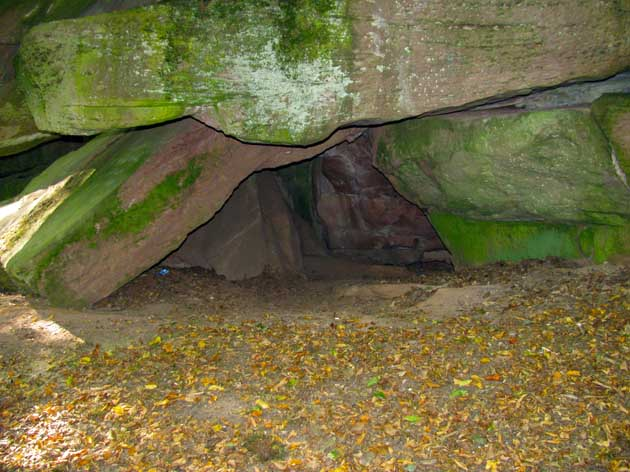 Caves of the of the dwarfs near Bad Kissingen (Germany)